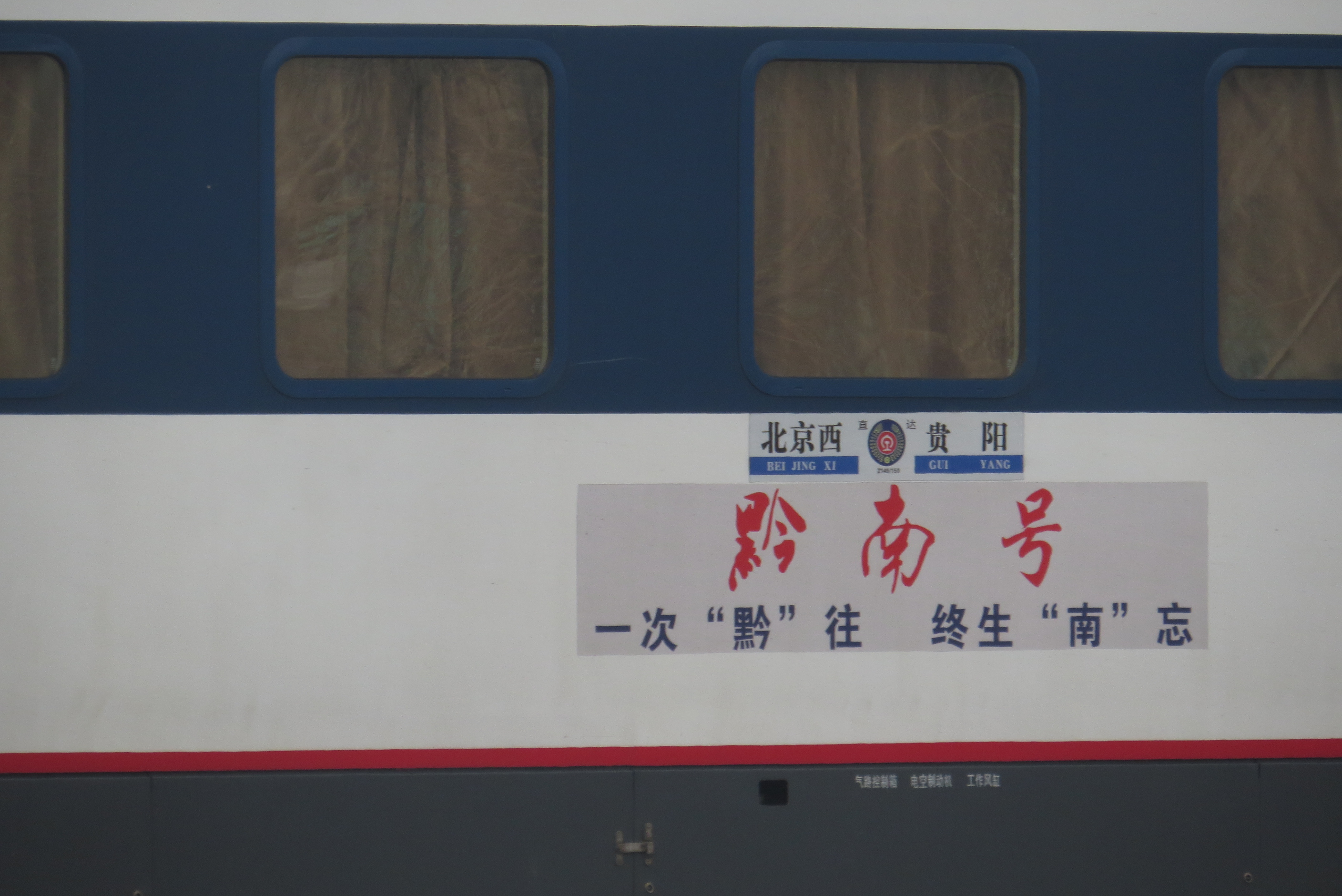 Named Qiannan - once you get there, you'll never forget!